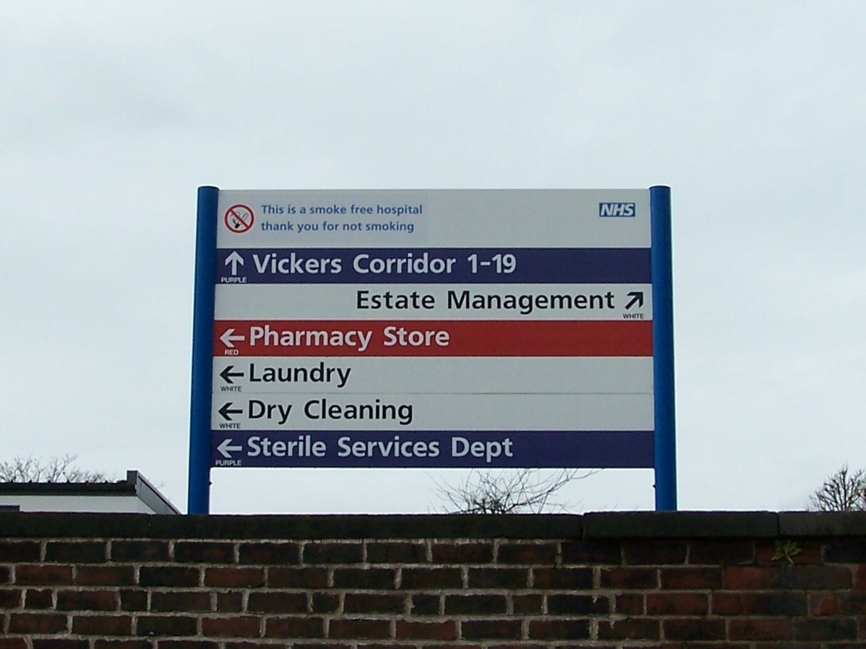 This Way Sign, Northern General Hospital, Sheffield. To help patients and visitors find their way around this huge hospital, there are many helpful signs like the one shown. The different wings and units are colour coded and match with the Hospital Maps 'dotted' around the site and available on leaflets and on-line ... follow this link to see the on-line version ... See this picture to see one of the maps in situ 1727725